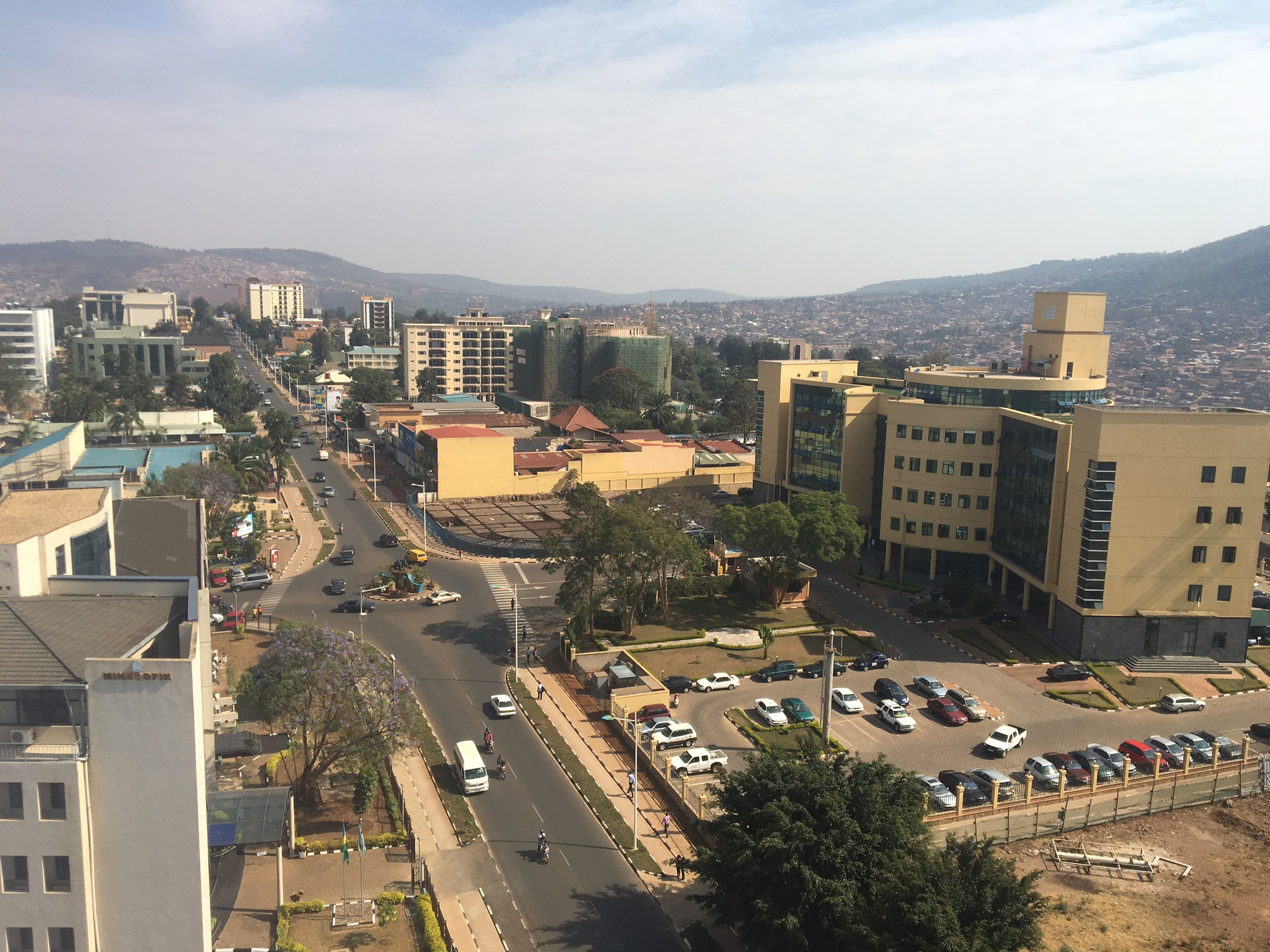 Large boulevards and Euclidian zoning patterns characterize the development in in Kigali.